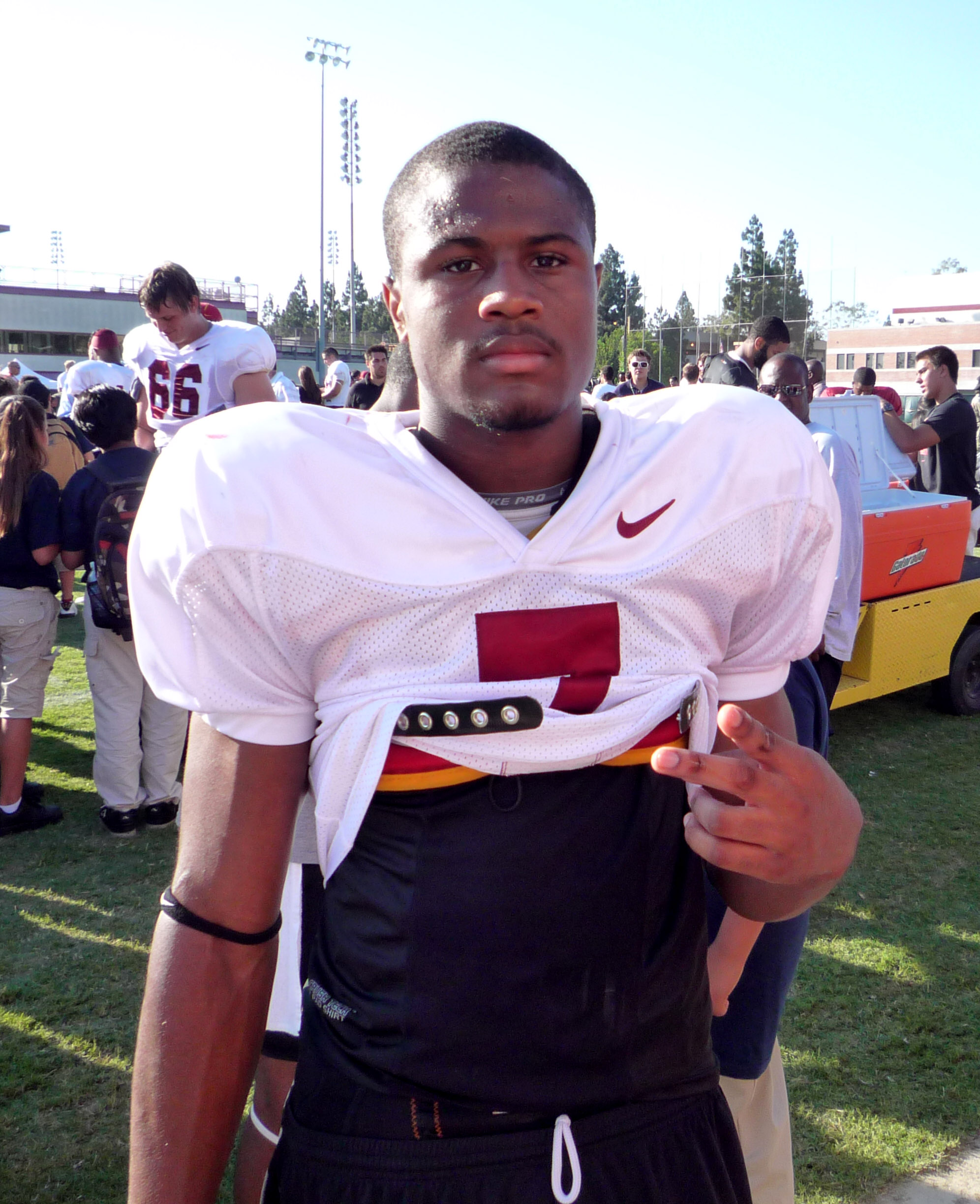 Wide receiver Vidal Hazelton, after a fall practice preceding the 2008 USC Trojans football season. He is making the traditional USC Trojan "V" for victory hand sign.